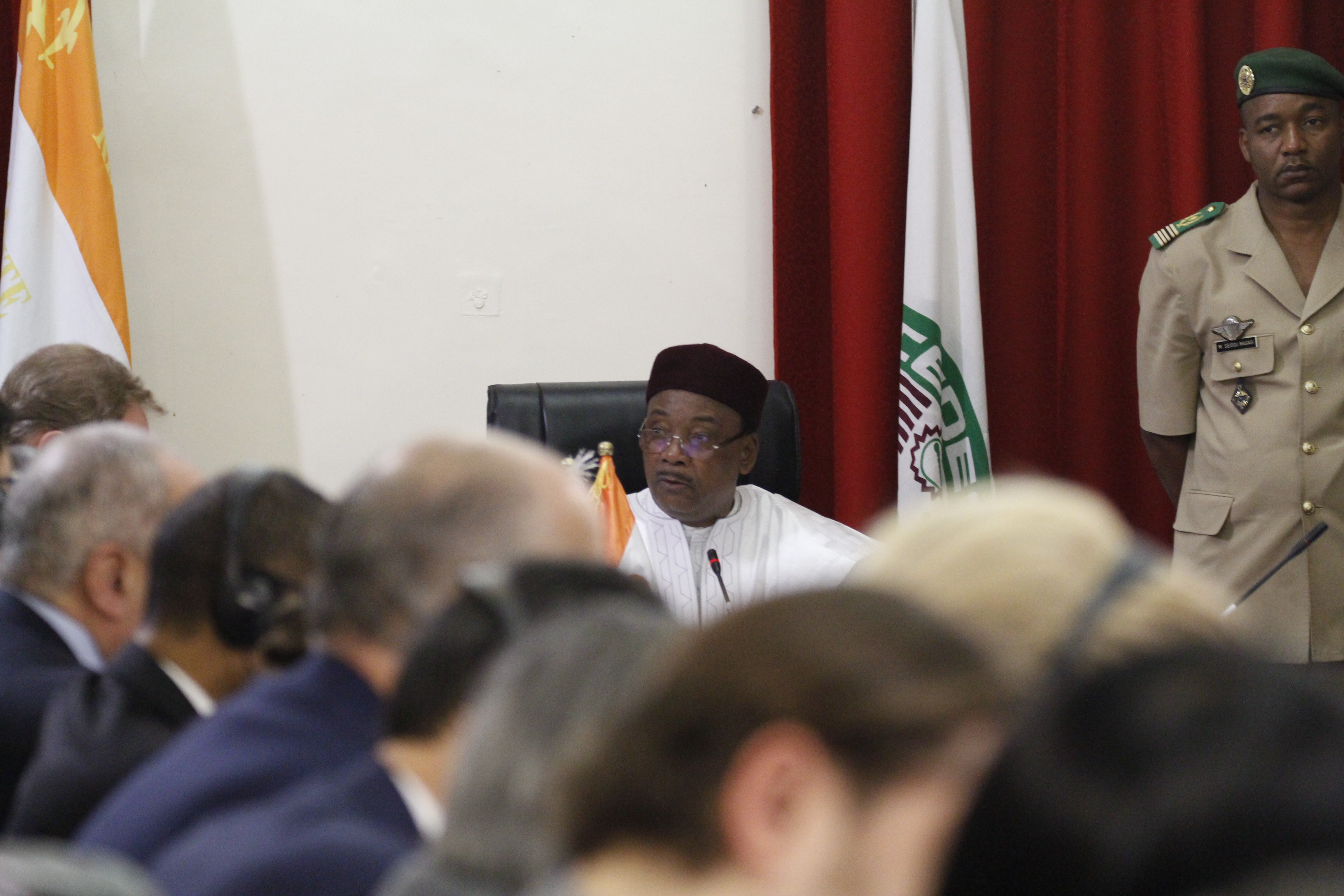 Images from the UN Security Council Field Mission to the Lake Chad Basin. Photos: UK Mission to the UN/Lorey Campese